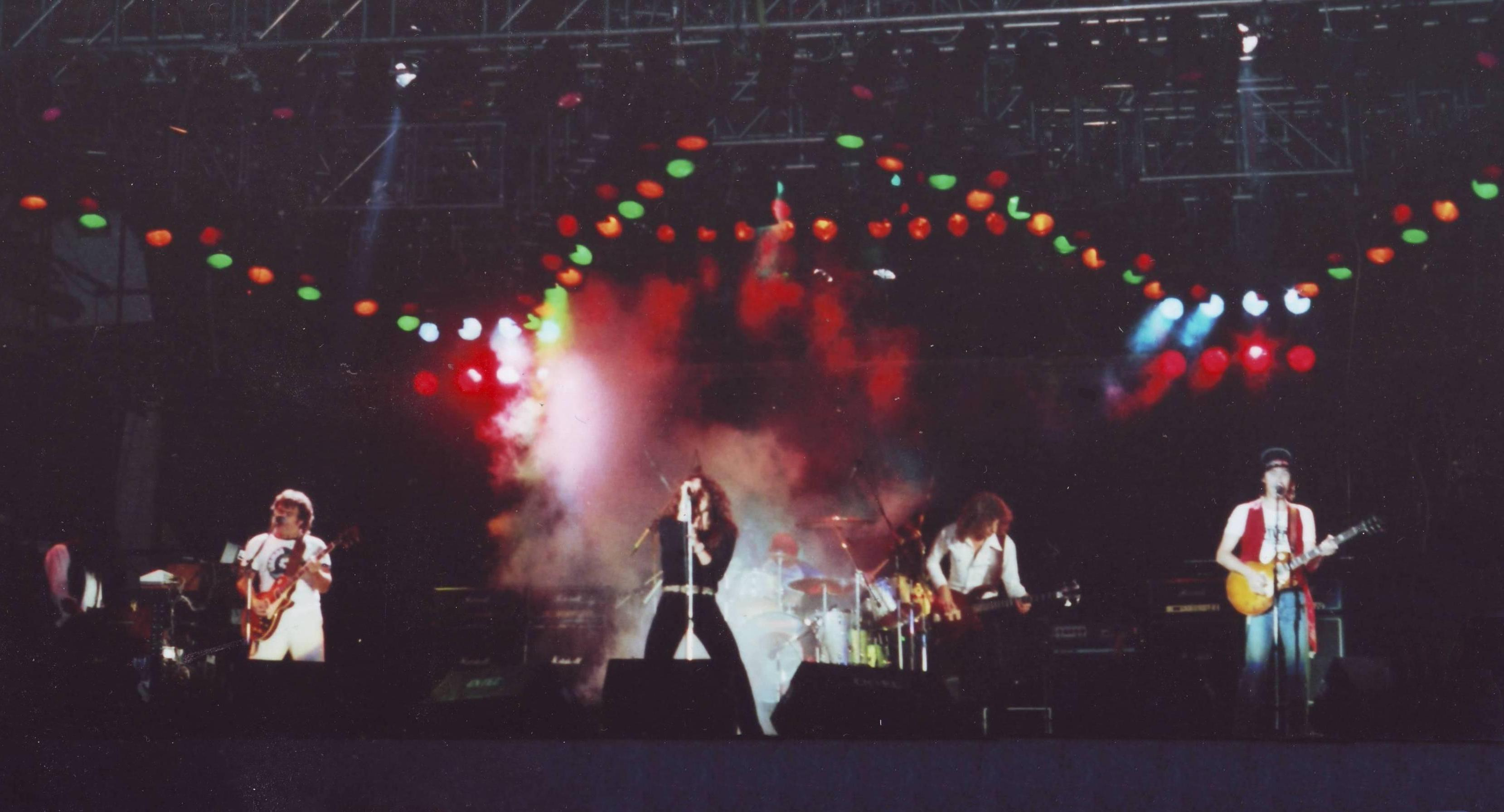 Whitesnake - Reading Rock Festival 1980; A classic show with the classic lineup.